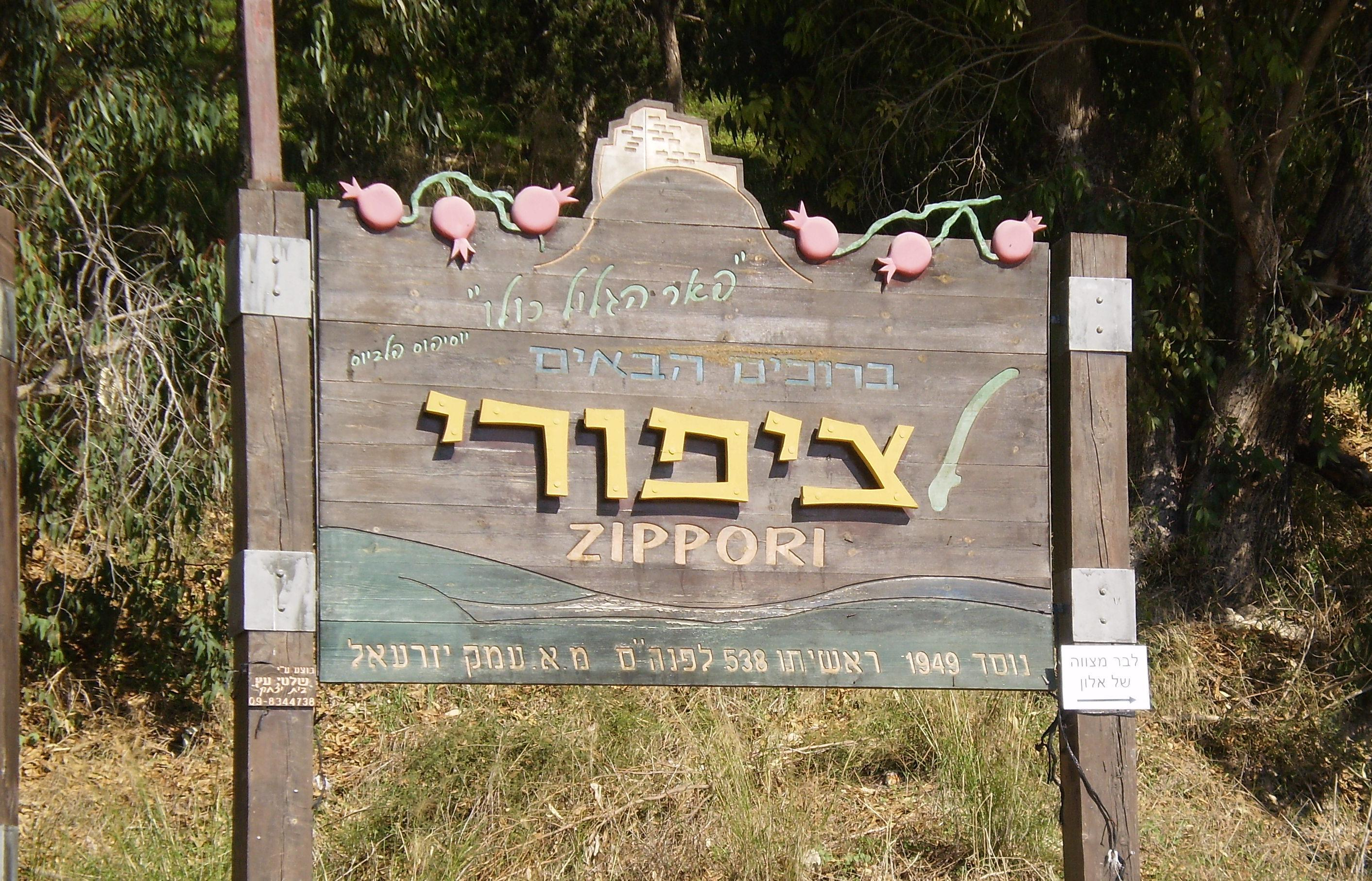 Sign in the entrance to Zipori